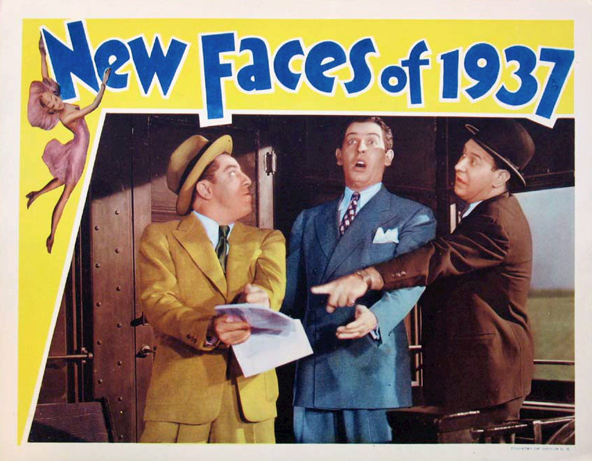 Lobby card for the 1937 film New Faces of 1937. There are no copyright marks on the item, which can be seen at the link. At bottom right is Country of origin USA.